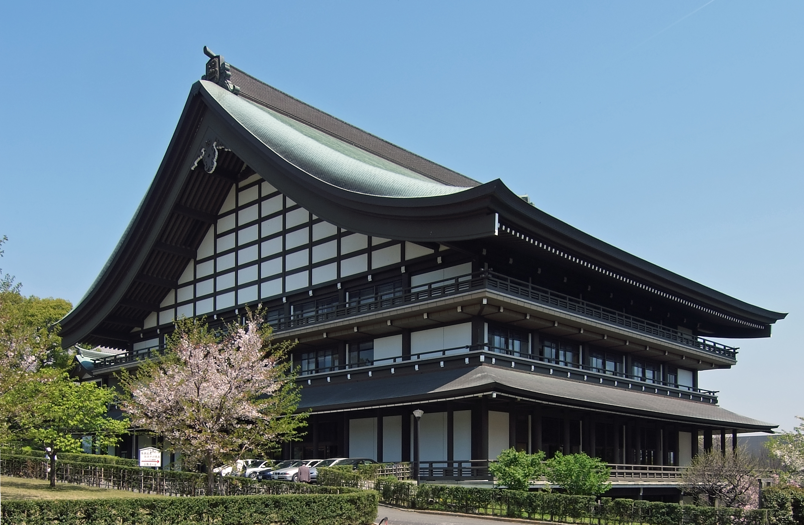 Sōjiji Sanshokaku, Tsurumi-ku Yokohama Japan.